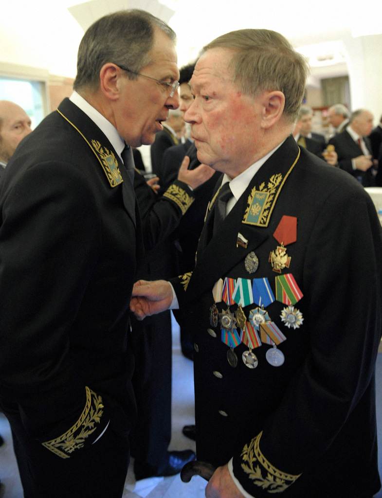 “Russian diplomats mark professional holiday”. From left: Russian Foreign Minister Sergey Lavrov and Russian diplomat Igor Rogachev, Federation Council International Affairs Committee member, at the Russian Foreign Ministry before a meeting to mark the Day of Russian Diplomats.